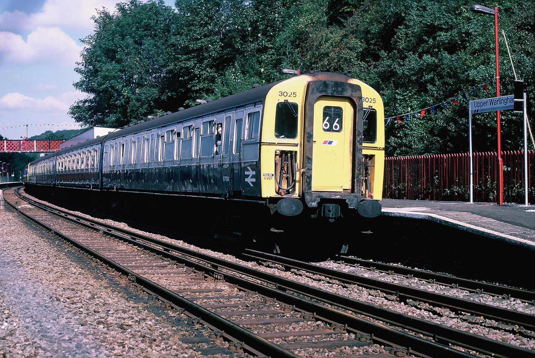 4-VEP 3025 at Upper Warlingham station